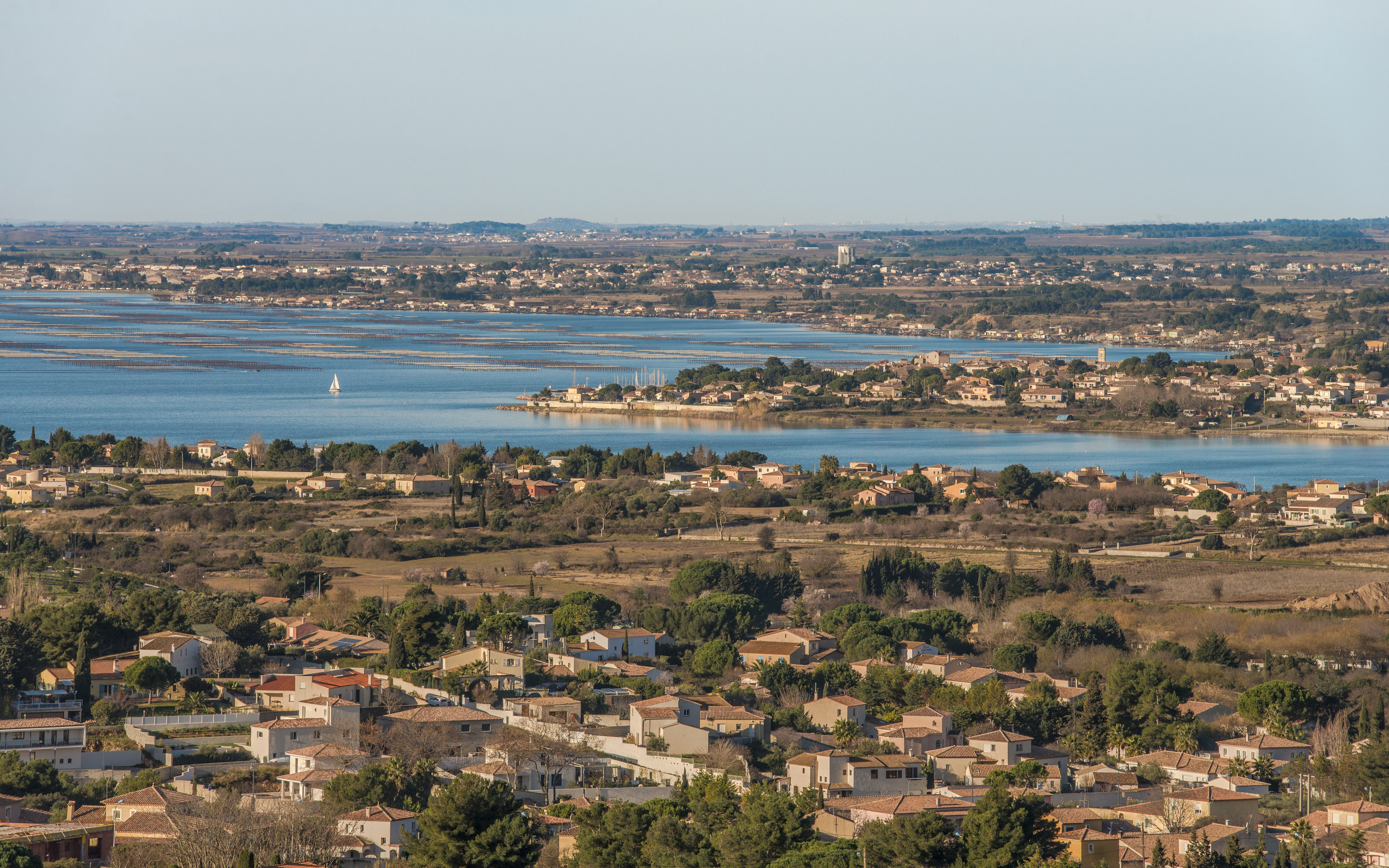 Three communes in border of the Étang de Thau. In the foreground Balaruc-les-Bains, then Bouzigues and at the bottom Loupian. Seen from the Mountain of La Gardiole in the commune of Balaruc-les-Bains, Hérault, France.